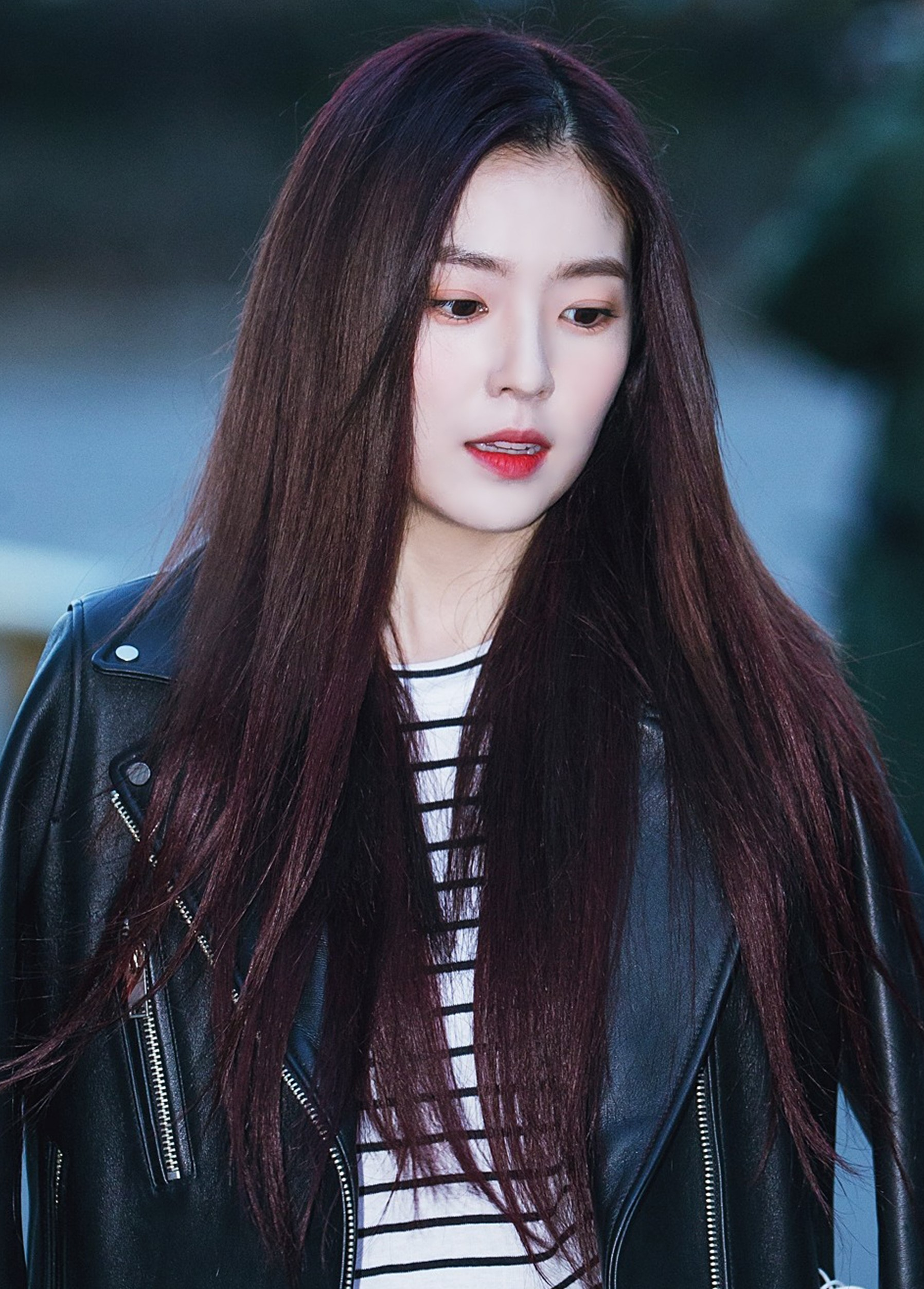 Irene Bae leaving a Music Bank recording on February 24, 2017.